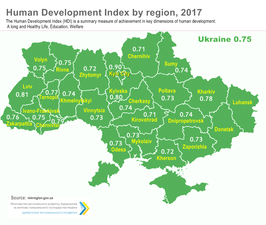 Ukrainian administrative divisions by Human Development Index